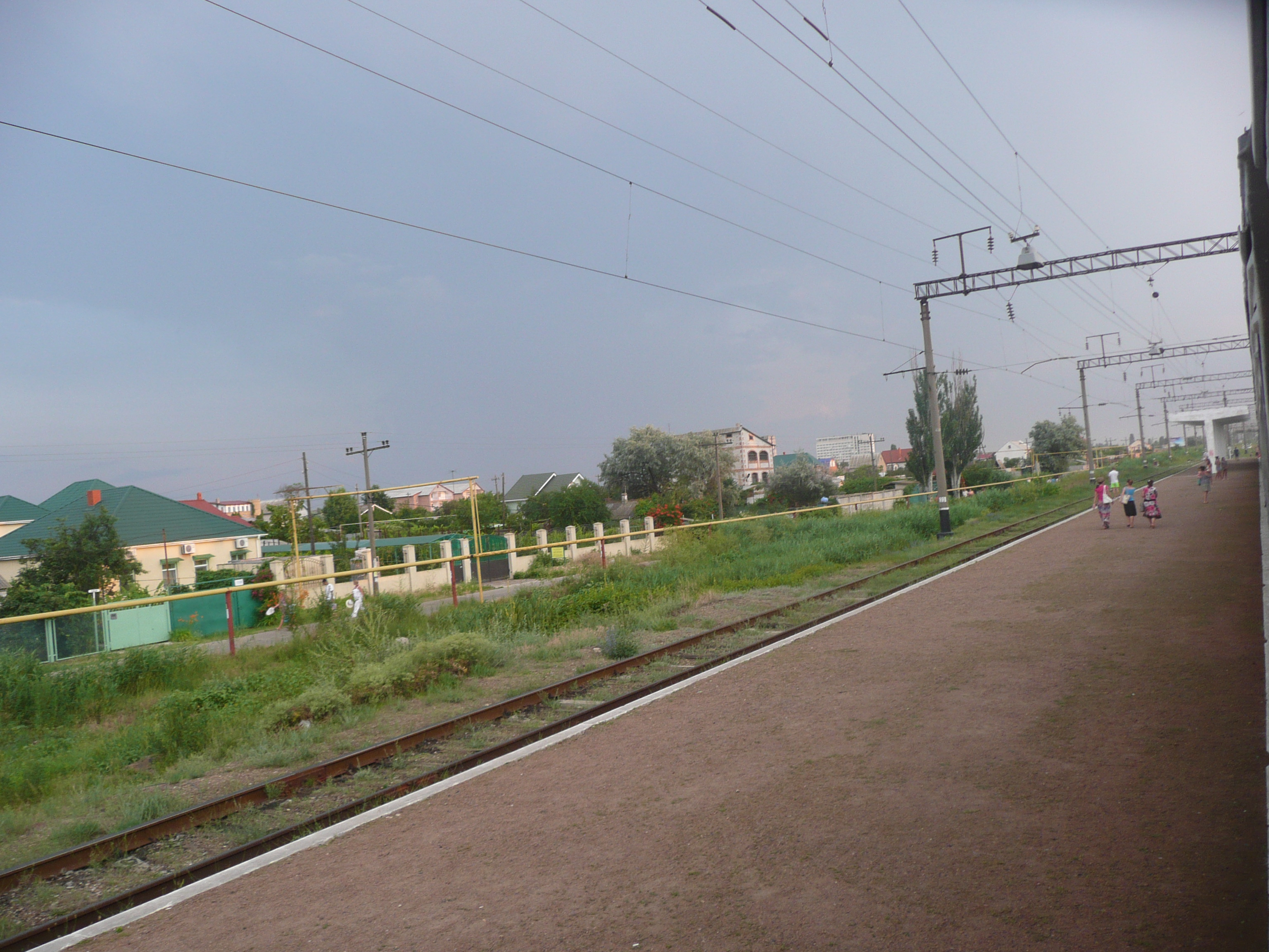 Karolino-Bugaz station (Odessa region, Ukraine)